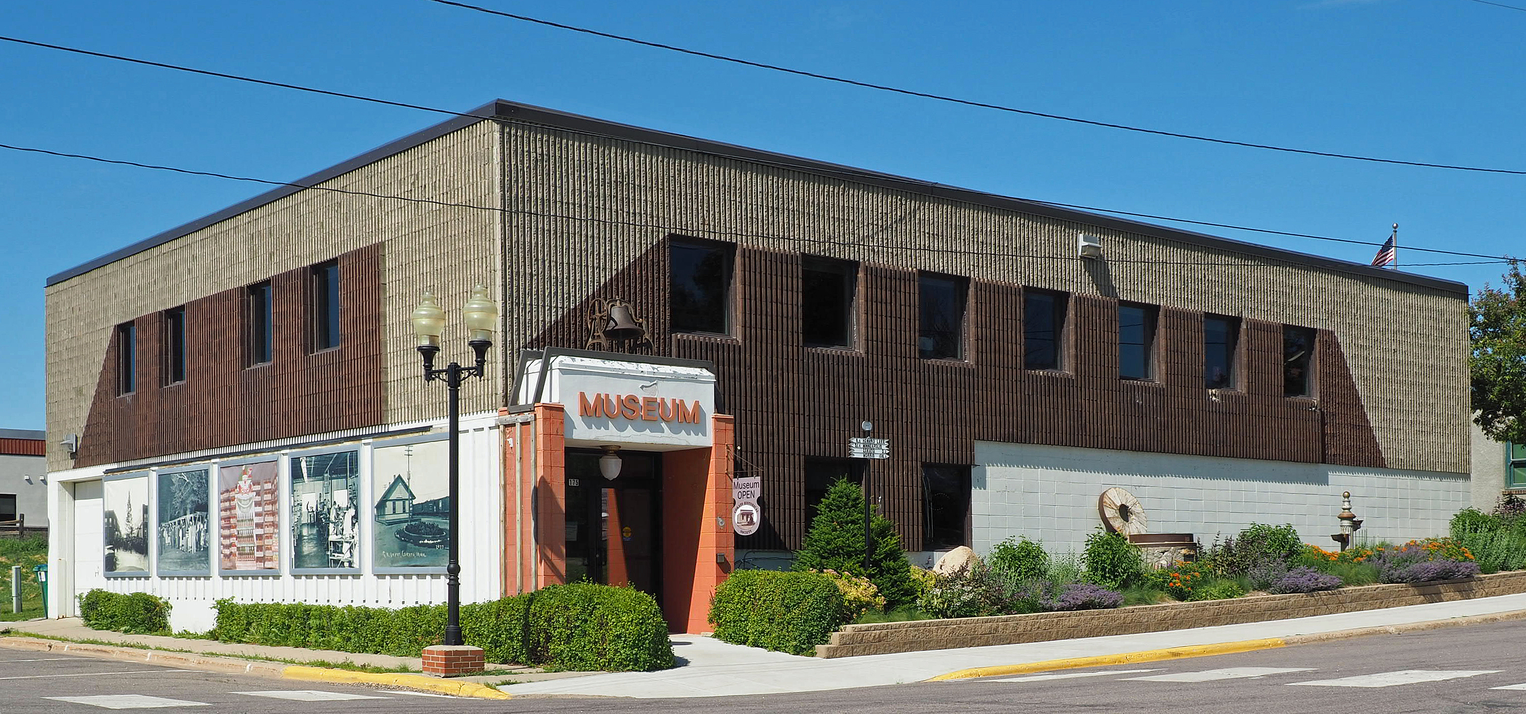 Cokato Museum, 175 4th St SW, Cokato, Minnesota, USA. Viewed from the southwest.